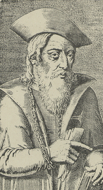 1885 reproduction of a contemporary engraving depicting Francisco de Sá de Miranda (1481-1558), Portuguese Renaissance poet.